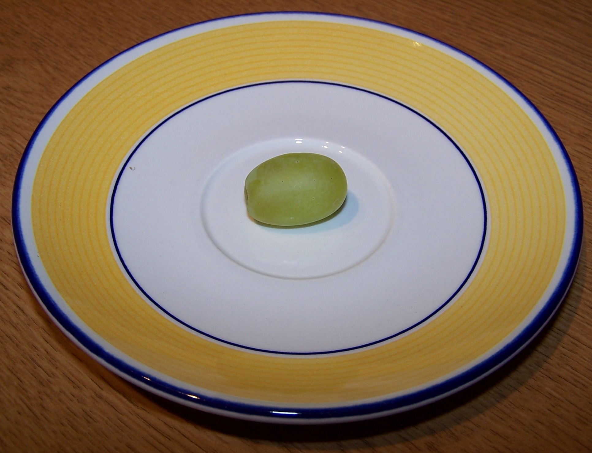 A single grape on a yellow and white saucer.